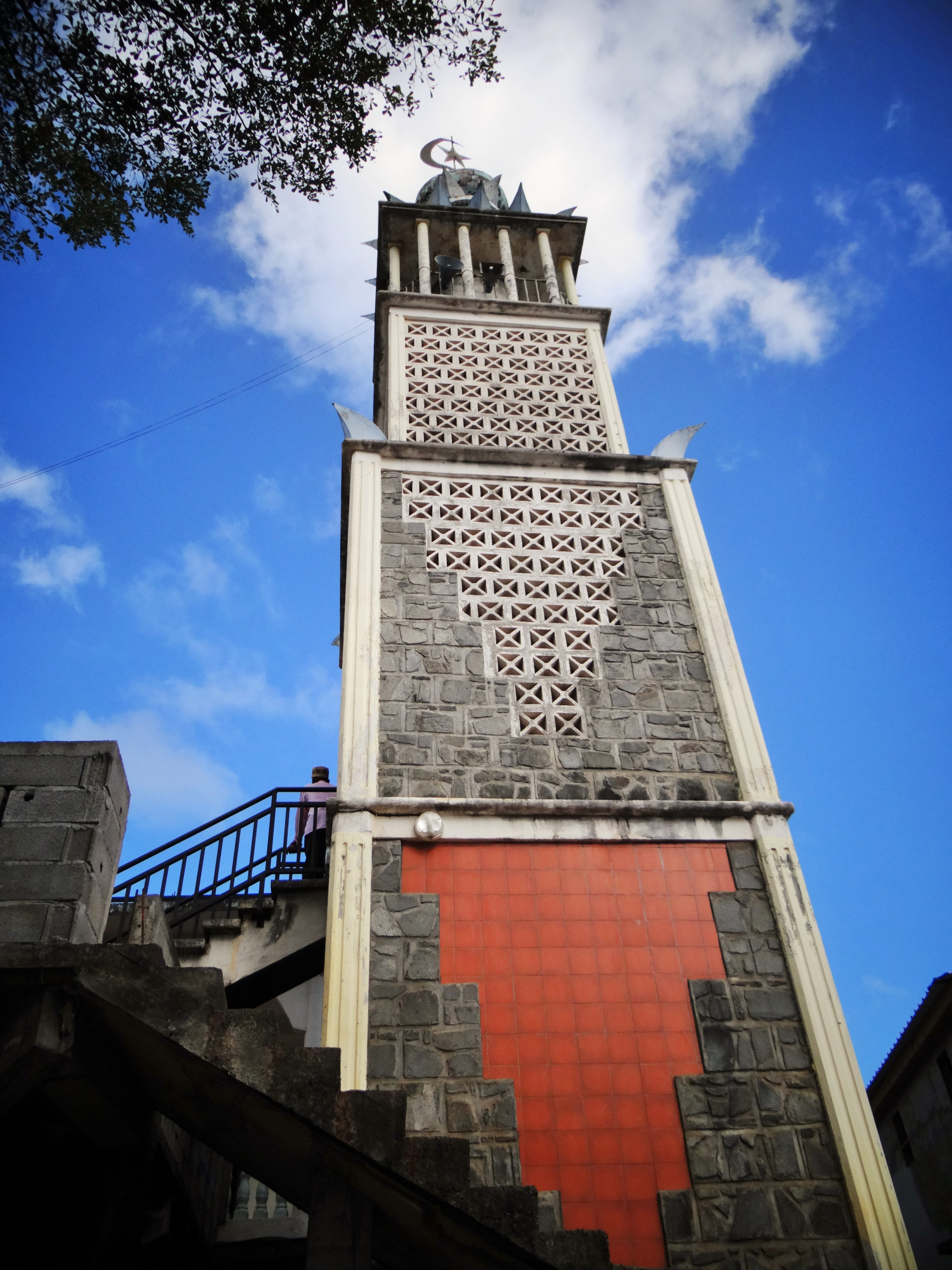 Minaret of the Tsingoni mosque in Mayotte.